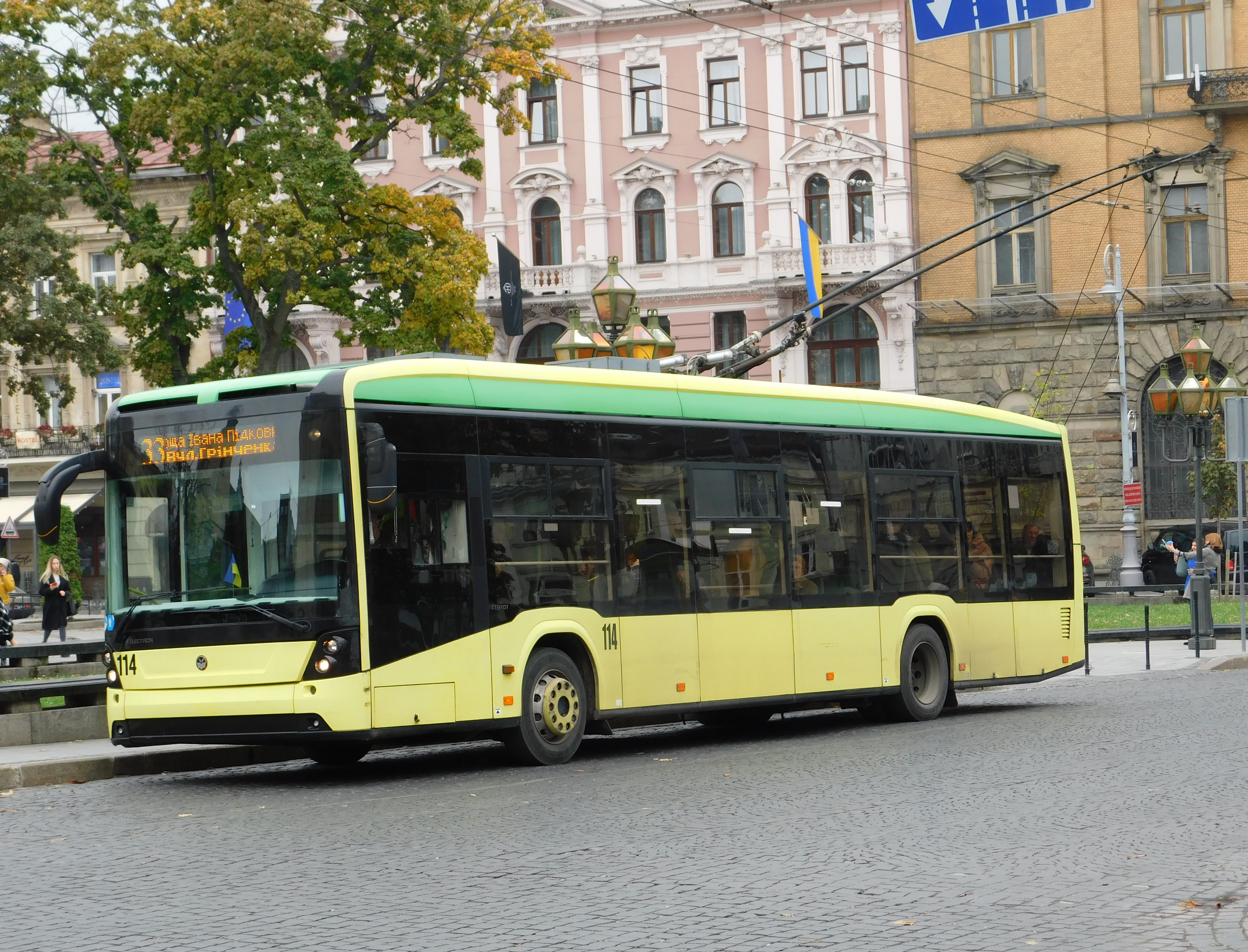 Electron T19101 no.114 in Lviv, Ukraine on 9OCT19